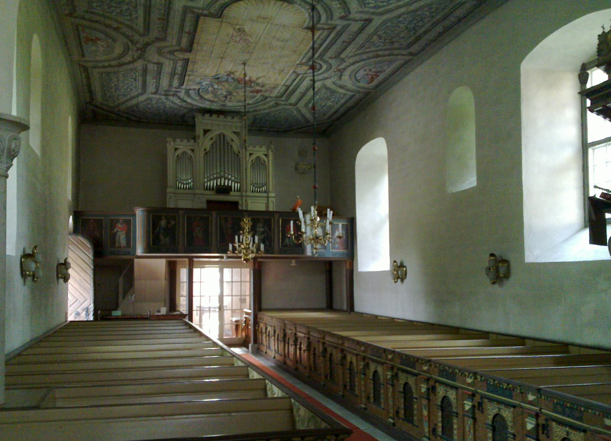 Church of Follingbo, Gotland